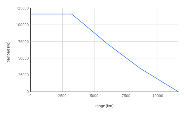 Antonov An-124 payload-range diagram, volga-dnepr data, google spreadsheet